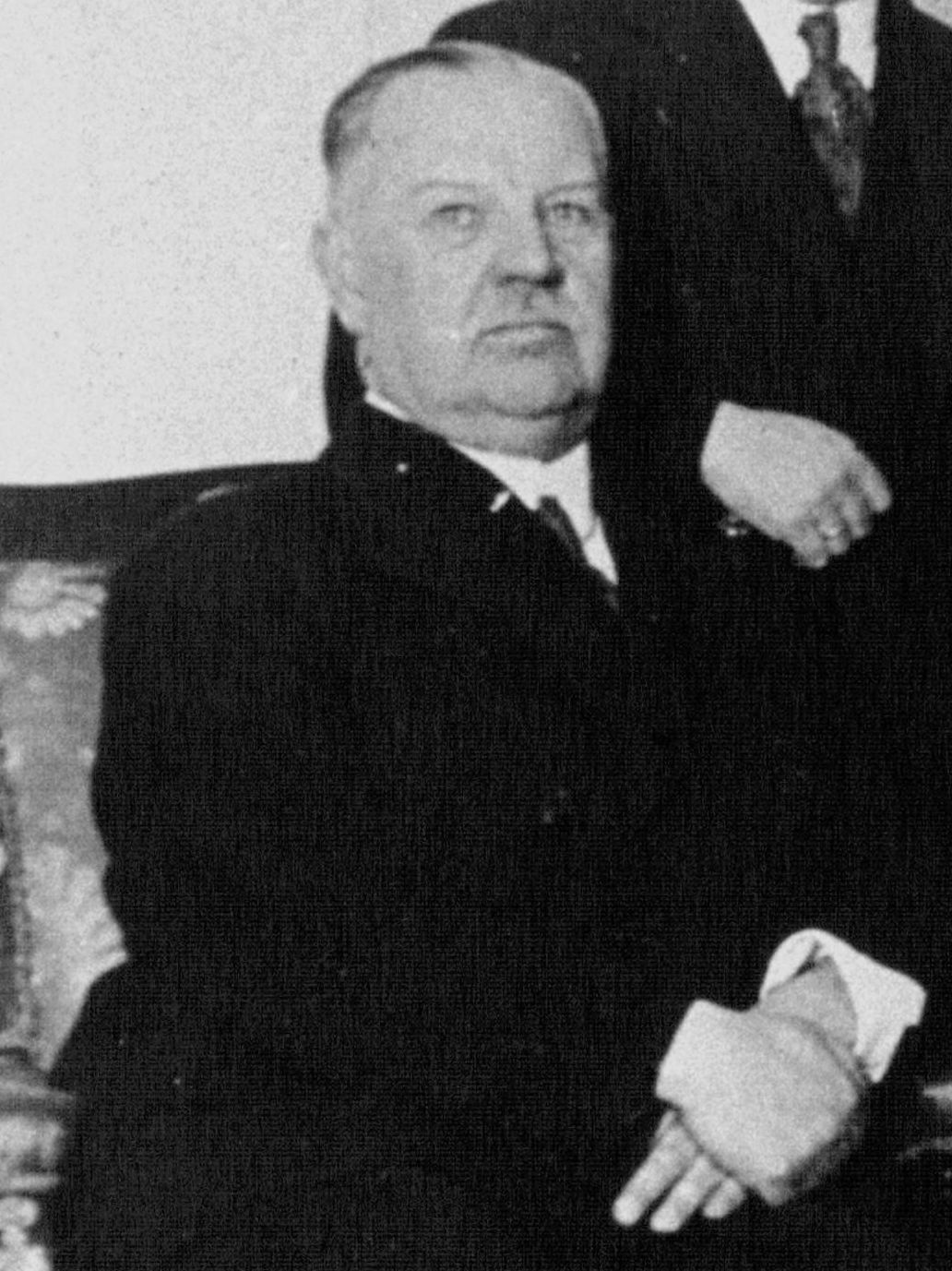 The new Austrian government of Karl Buresch (1932). From left to right side, first row: Vaugoin, Winkler, Buresch, Weidenhoffer, and Federal President Miklas; second row: Dollfuß, Schuschnigg, Czermak, Resch.